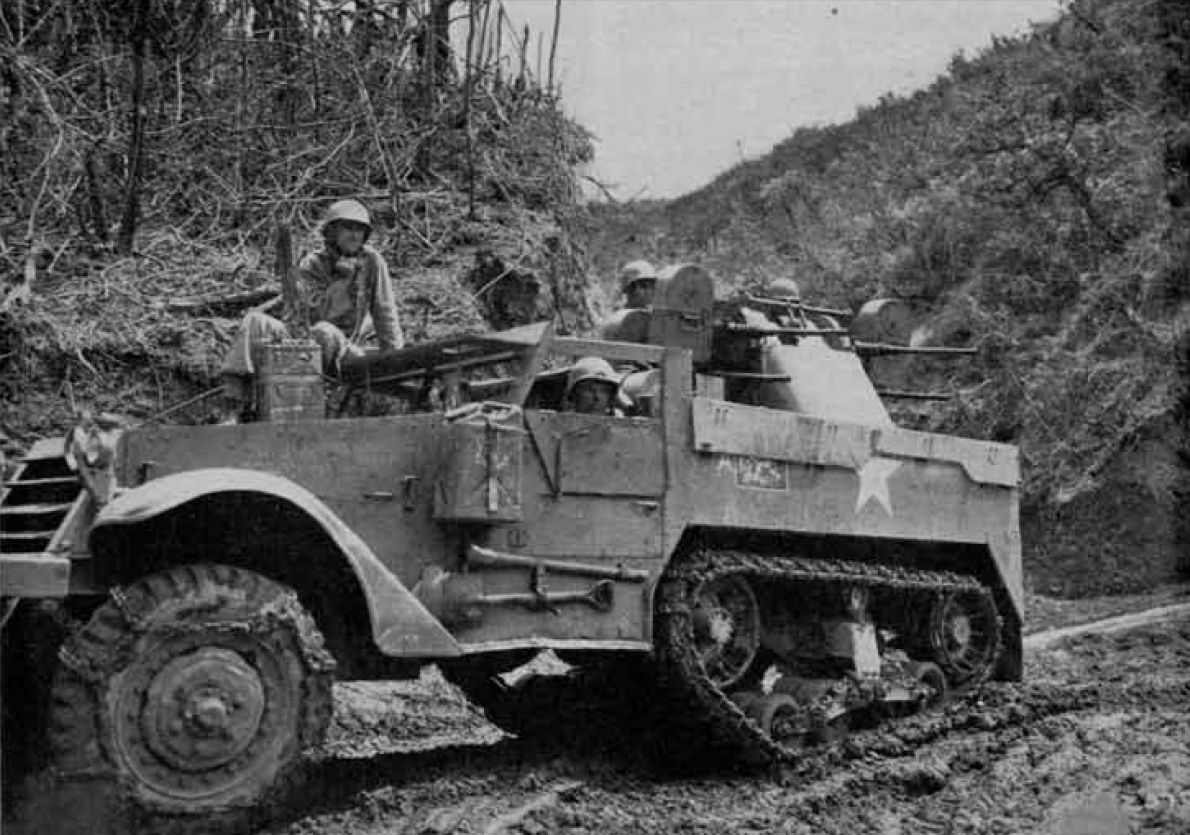 M16 MGMC.